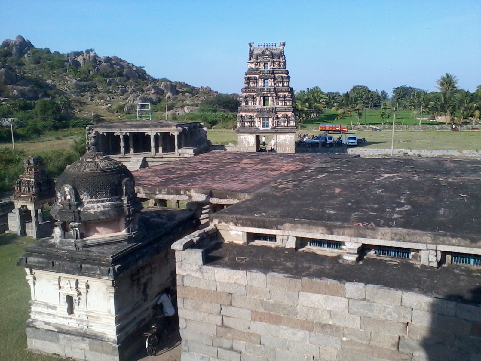 Stambeshwar (Shiva) Temple in Seeyamangalam, Tiruvannamalai district